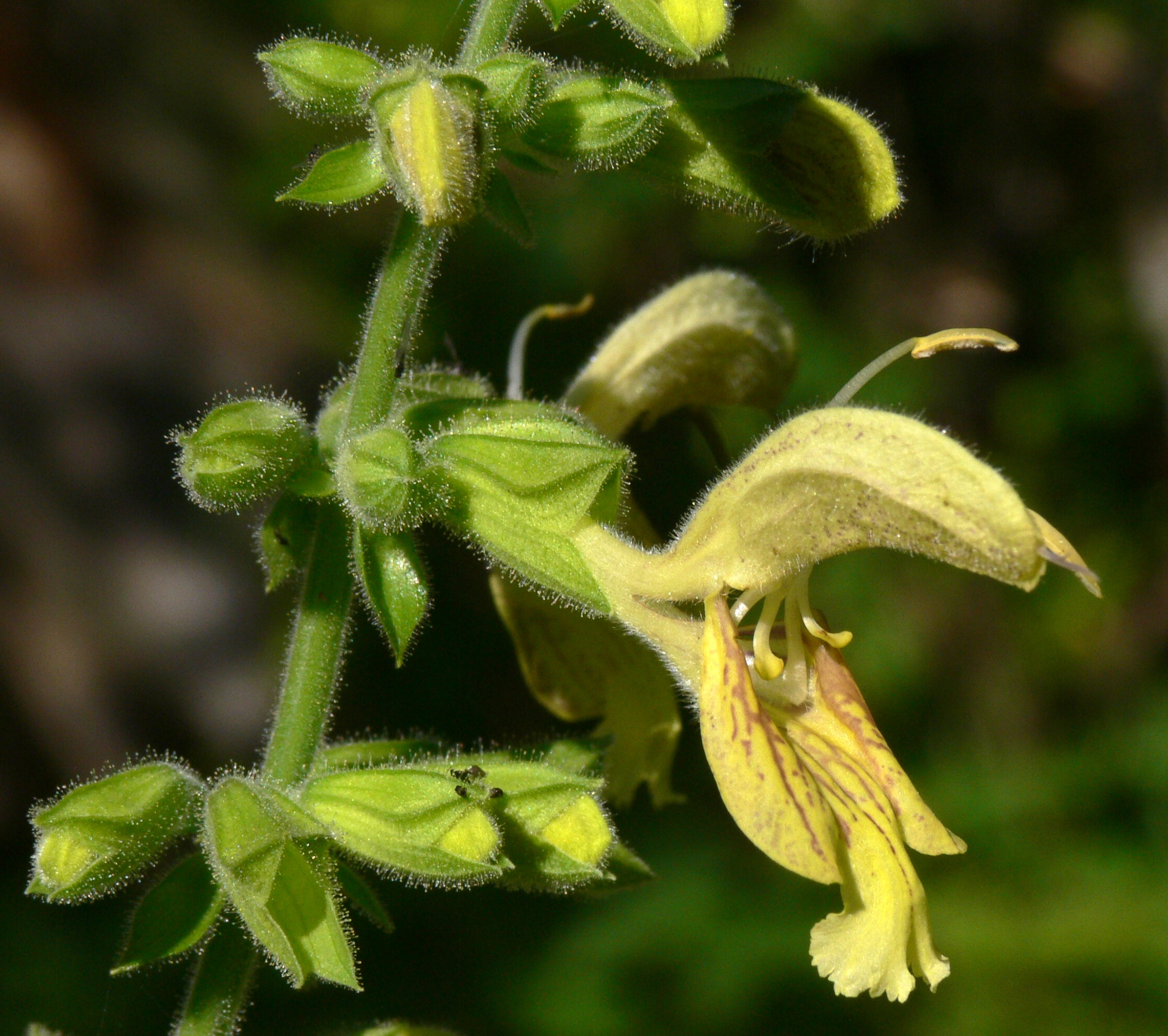 sticky sage, flower